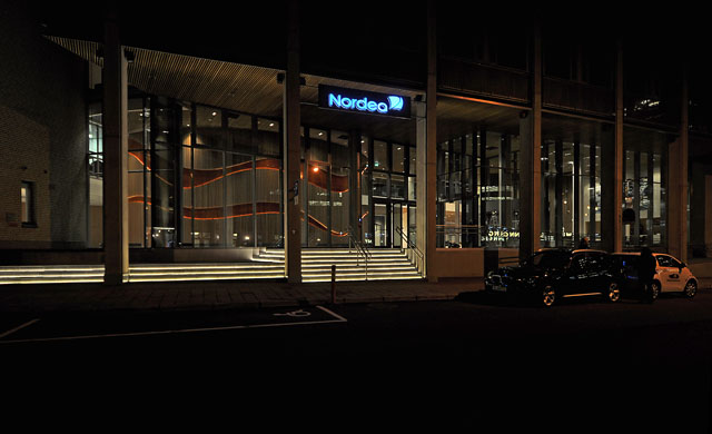 HQ